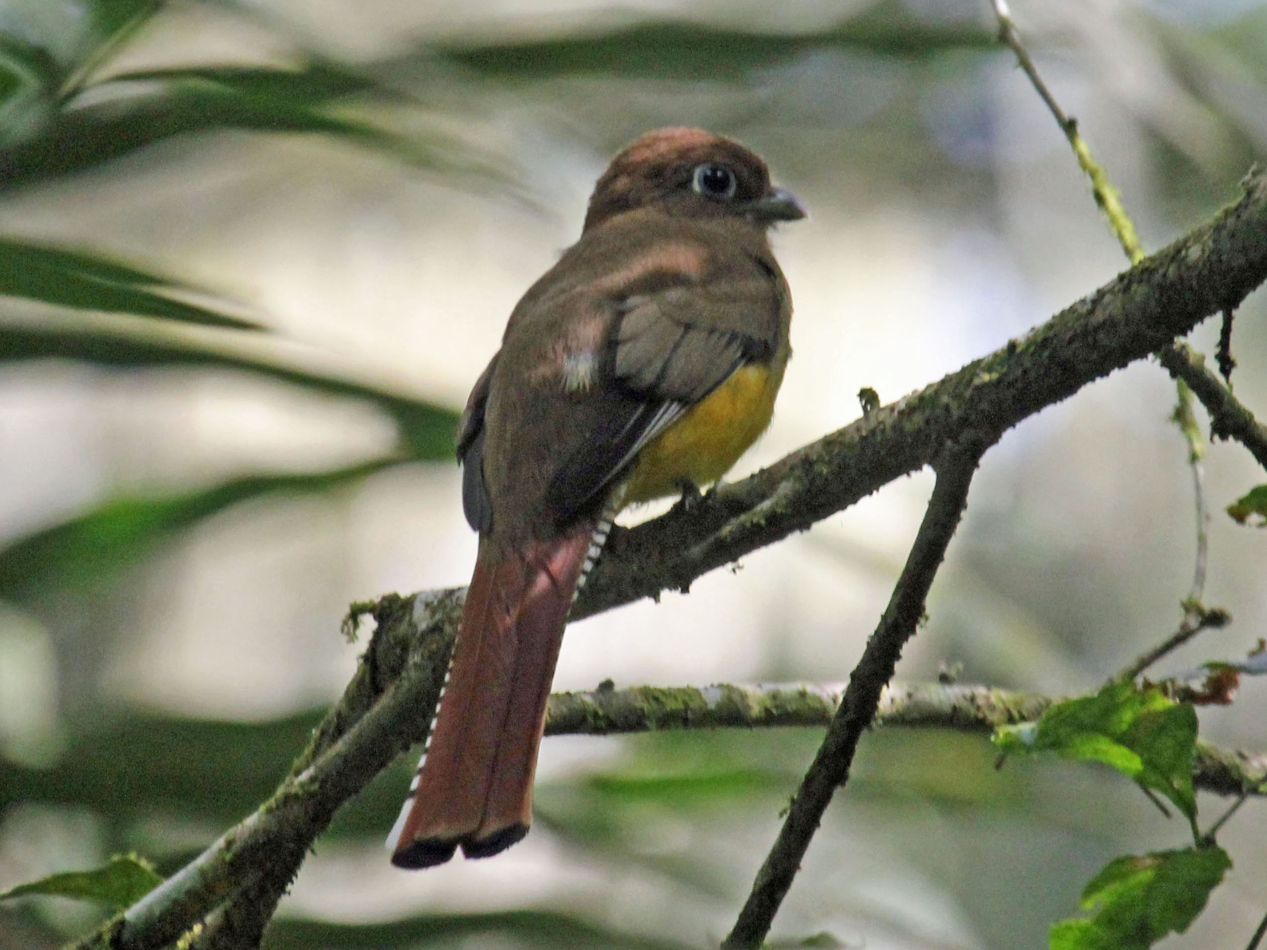 Black-throated Trogon - Soberania National Park, Panama.